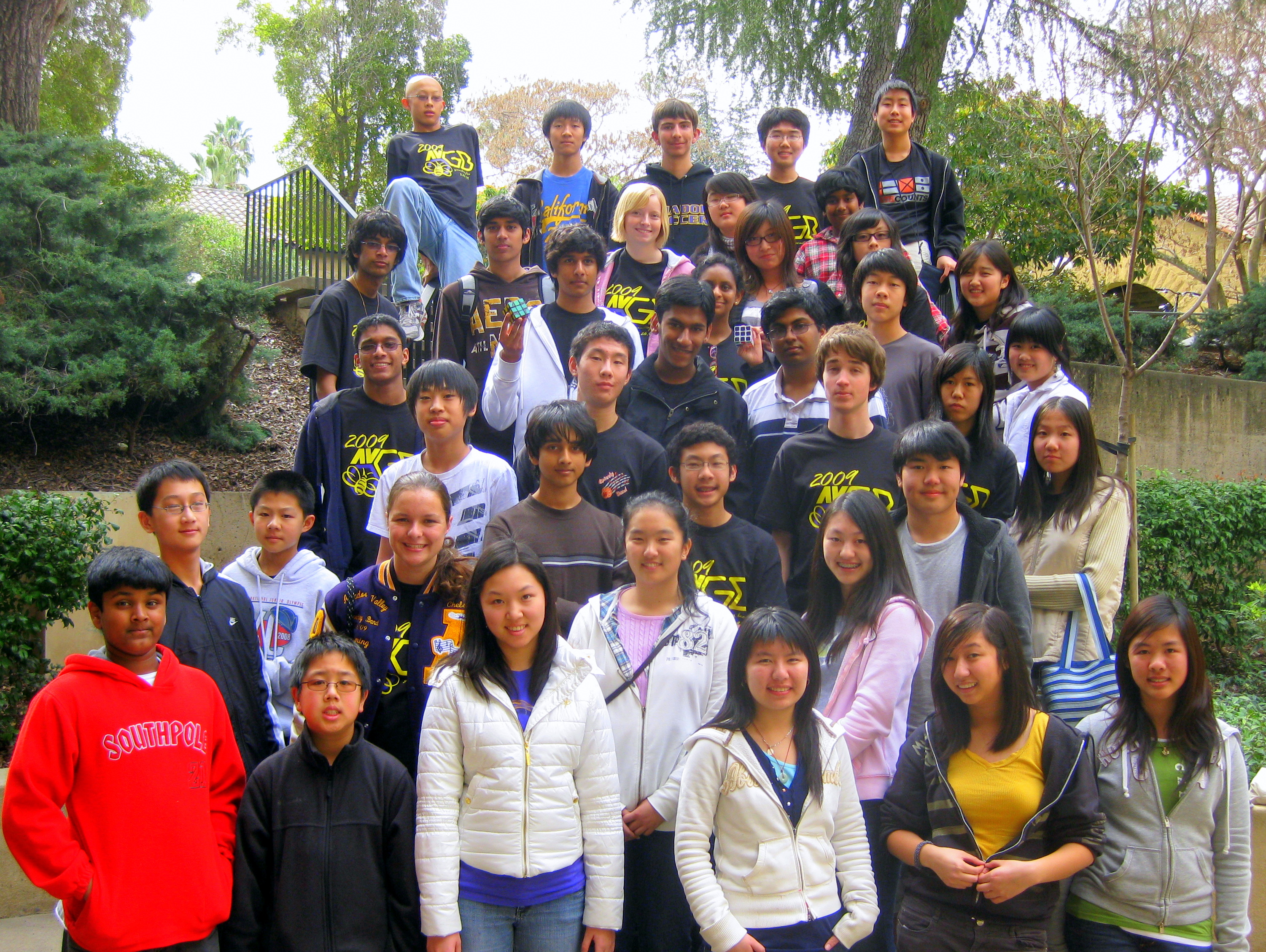 Pleasanton Math League members at the 2009 Stanford Mathematics Tournament. The League consists mostly of students from Amador Valley High School, and contains students from schools in Pleasanton, San Ramon, and Danville.